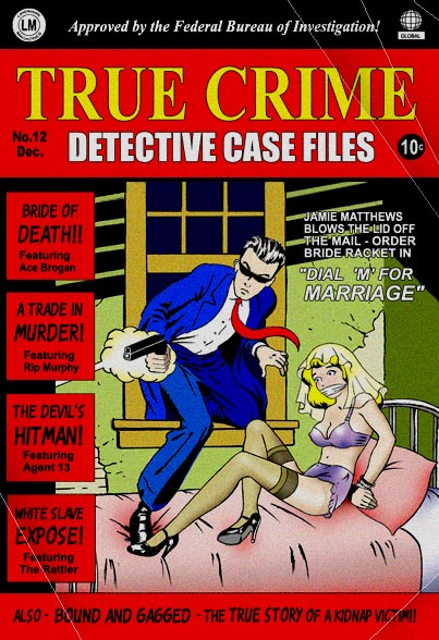 Mock up cover of a 1940s crime comic. Images such as this gained popularity following World War Two, when the superhero genre began to fall out of fashion. Drawing on the pulps of the 1930s for inspiration, crime comic covers featured violent, macabre and lurid imagery. Educational purpose: to illustrate terms such as crime comic, hard-boiled, detective fiction, etc. Artwork by Simon Kirby, released under cc-by-sa 2.0. Author agrees that Commons is not censored and that international wikimedia projects have the right to use this image.